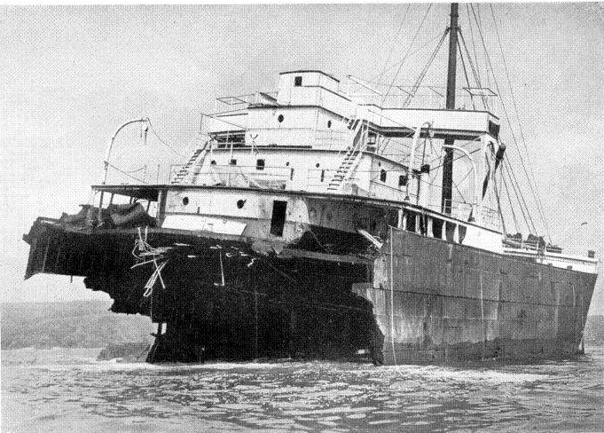 The liner Suevic's original bow stranded on rocks after the ship ran aground and was split.